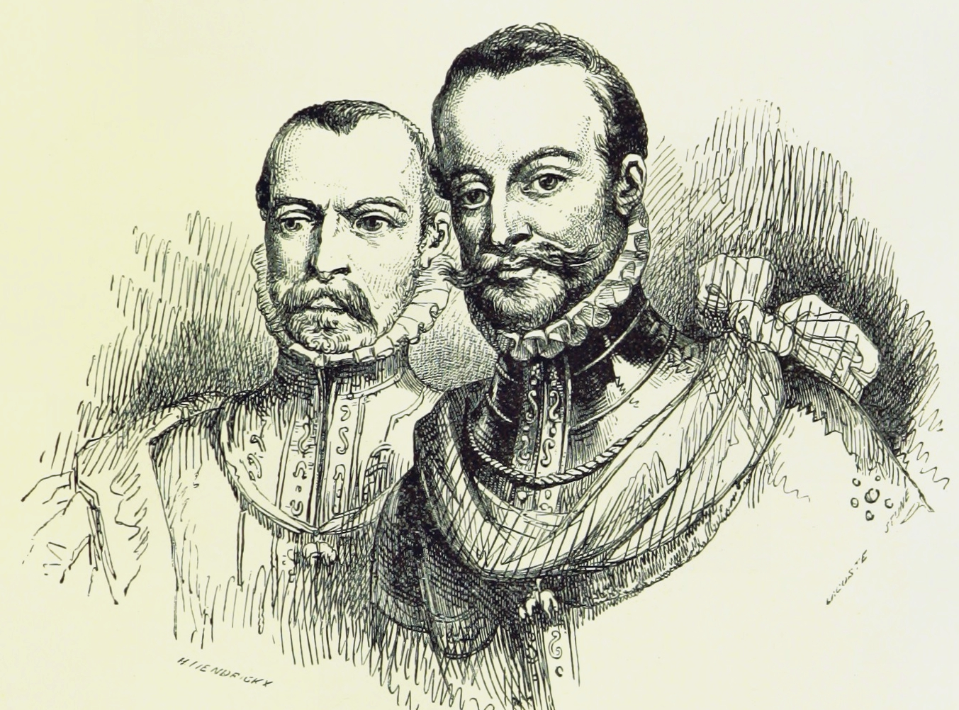 Lamoral, Count of Egmont and Philip de Montmorency, Count of Horn